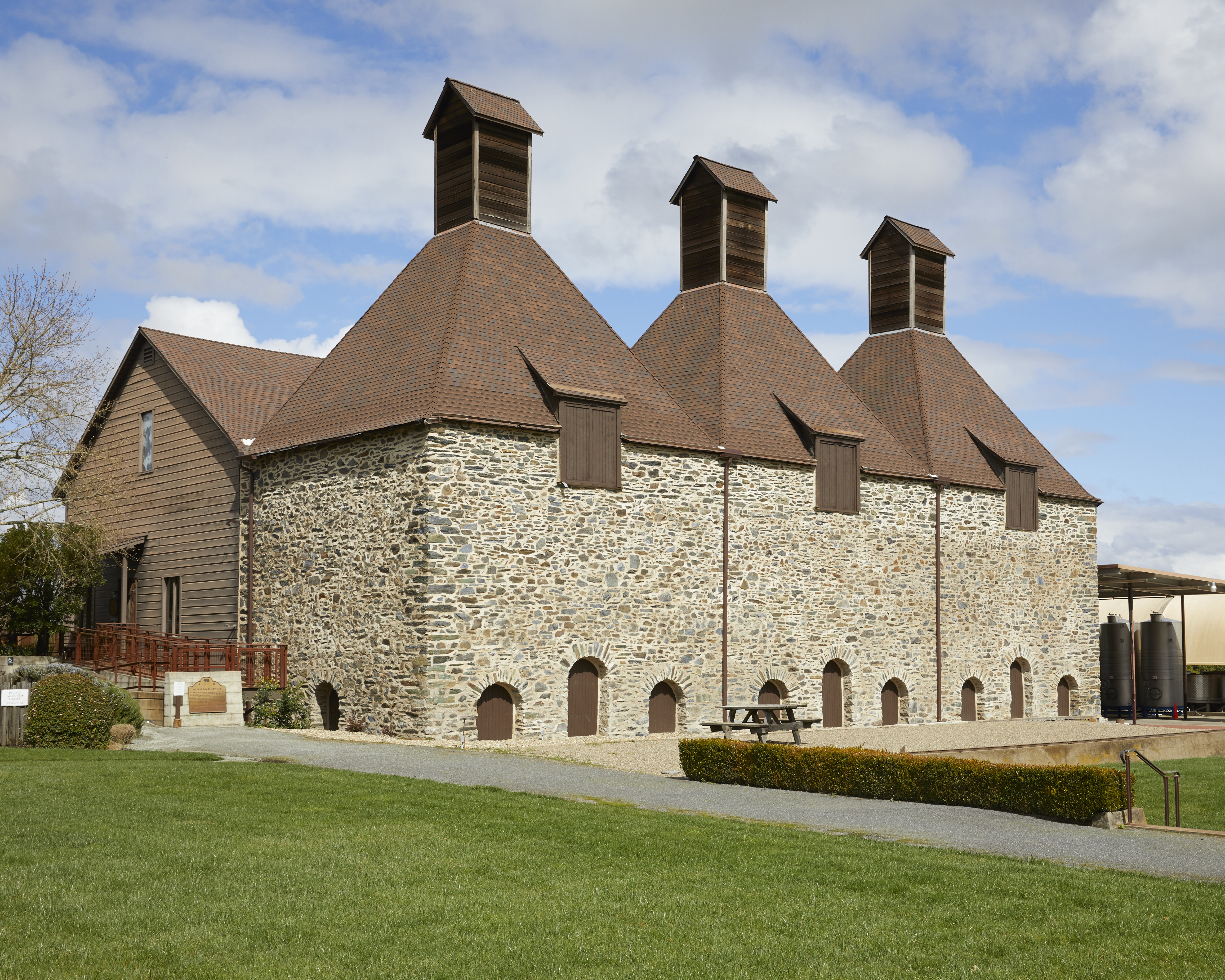 Walters Ranch Hop Kiln near Healdsburg, Sonoma County, California. In 2016, Landmark Vineyards purchased the historic Hop Kiln winery on Westside Road; this image shows the structure in early 2019. The California Office of Historic Preservation recognized the building as “the most significant surviving example of a stone hop kiln in the North Coast region.”